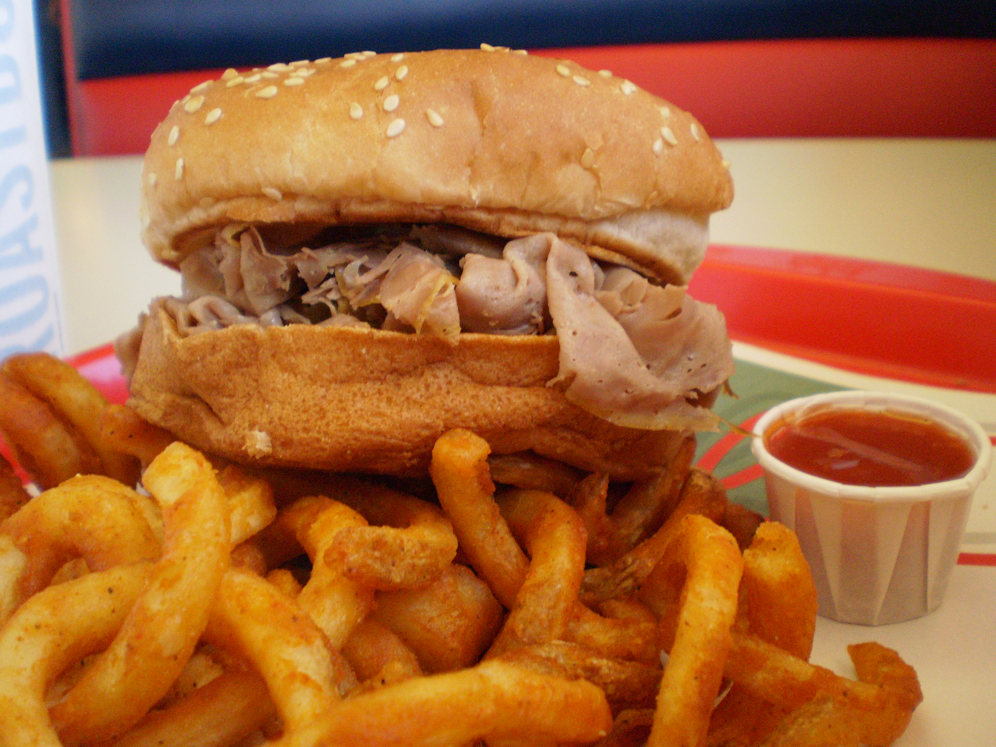 Arby's medium roast beef sandwich with curly fries and a small container of their special barbecue tangy something sauce. Entire bun shown.